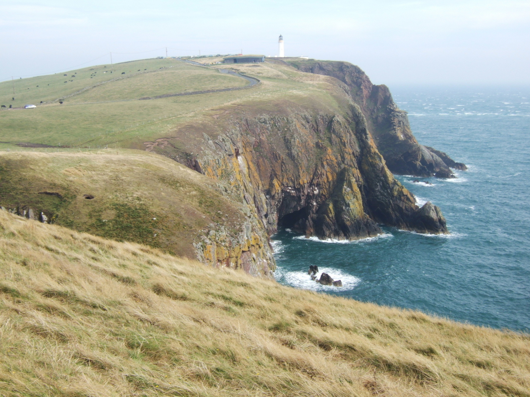 Mull of Galloway Headland. 3rd September 2005 Photographer - A.M.Hurrell Camera - Fuji FinePix F10 Modified - Trimmed and file size reduced using Finepix Software